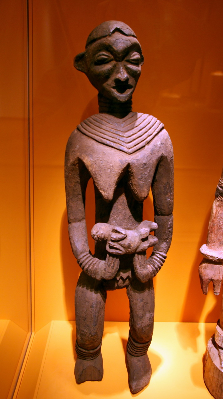 Female figure with child, Bangwa peoples, Cameroon, Late 19th to early 20th century, Wood, encrustation Typical of Bangwa portrait sculptures, this particular figure may represent a royal wife and a mother of twins. She is shown nude except for the carved representations of ivory jewelry, which are signs of her status as a royal wife. Her necklaces identify her as a mother of twins. Twins and their parents are shown special signs of respect, including the carving of figures in their honor. It is not unusual for a mother of twins to be depicted with only one child. (National Museum of African Art)